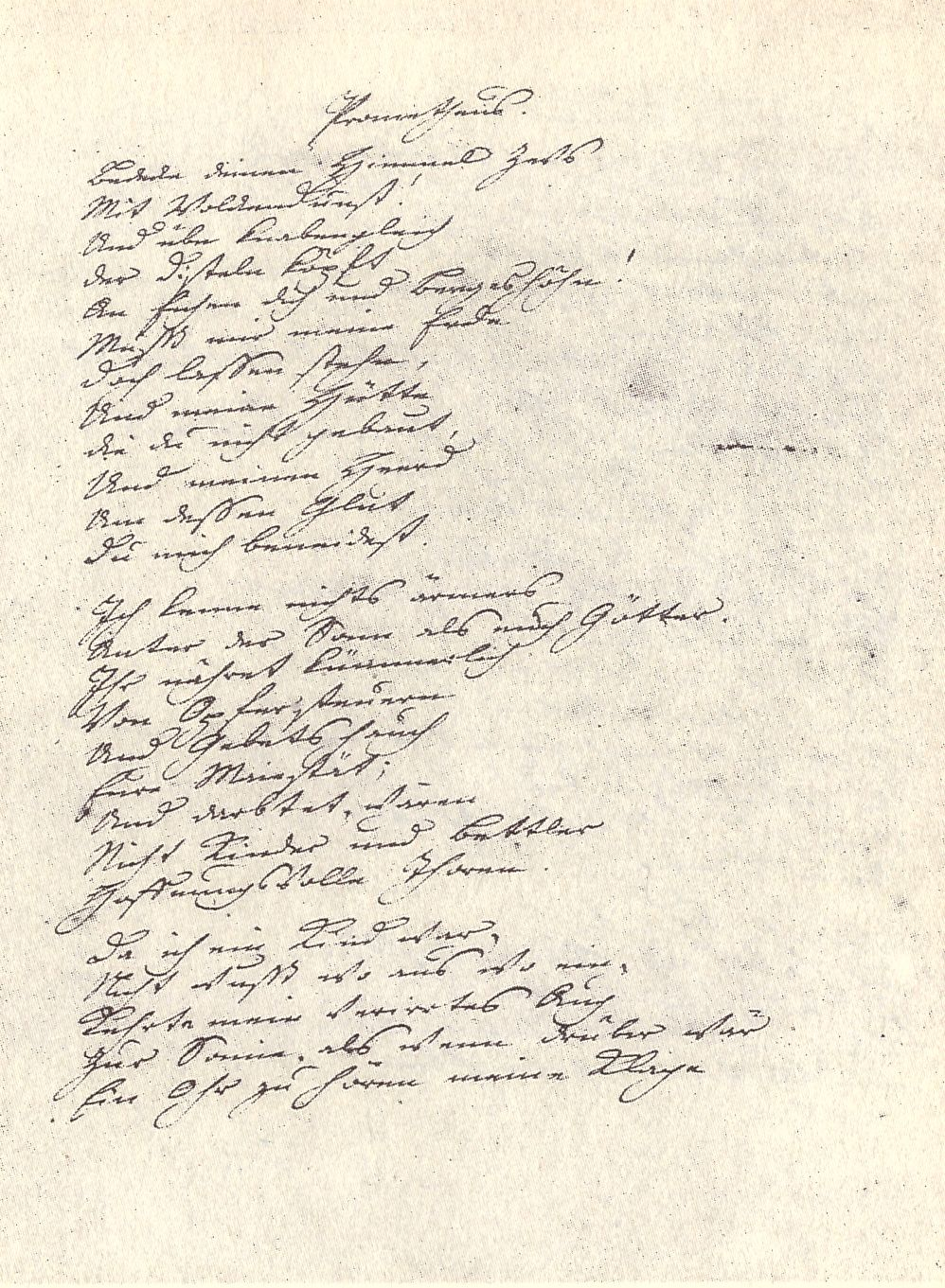 Autograph of Goethe’s hymn „Prometheus“, version of 1777. Goethe- und Schiller-Archiv, Weimar.